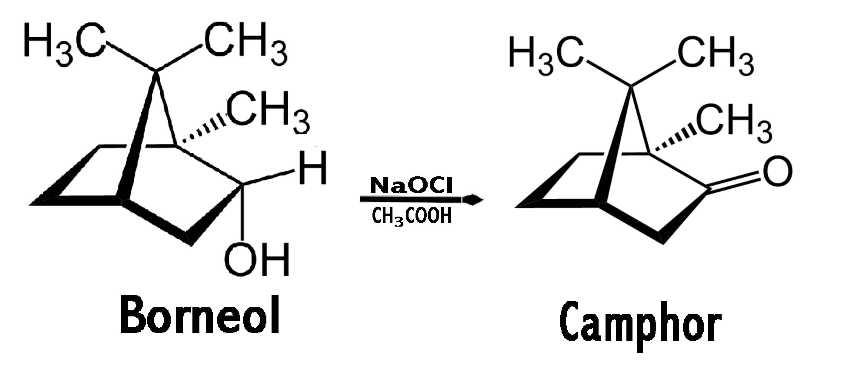 Camphor synthesis from borneol